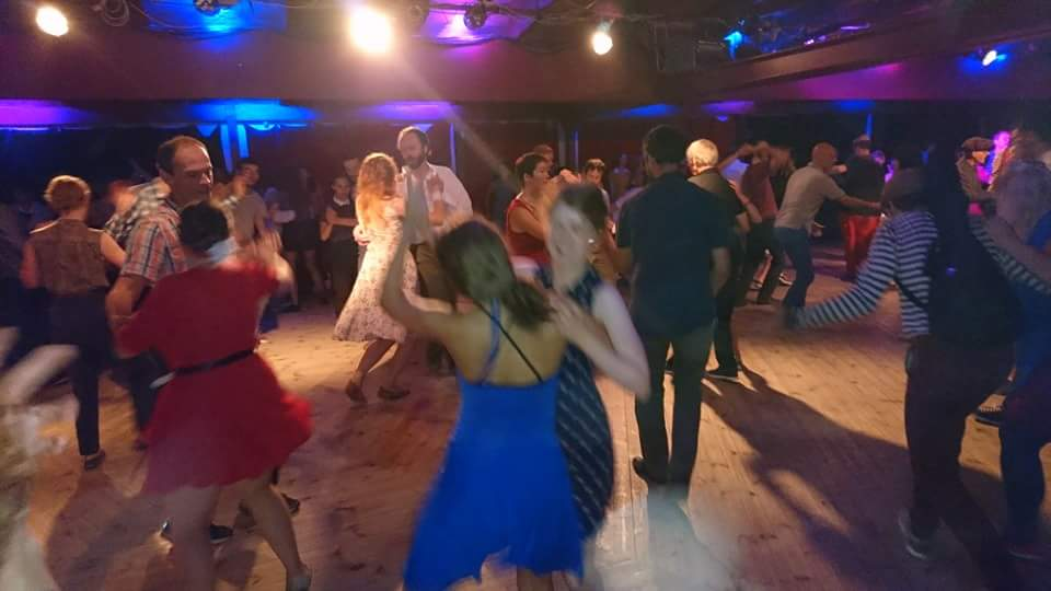 Herräng Dance Camp, outside Hallstavik, a few hours north of Stockholm, Sweden. Summer 2016.